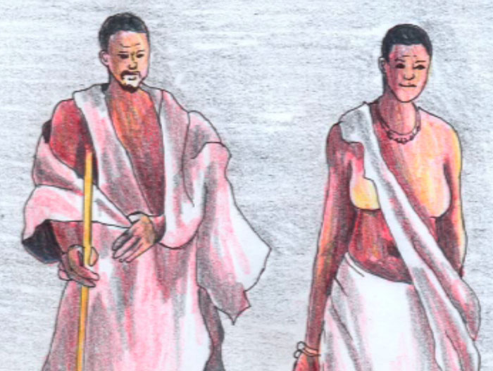 (Bakiga1,own work,Edirisa)